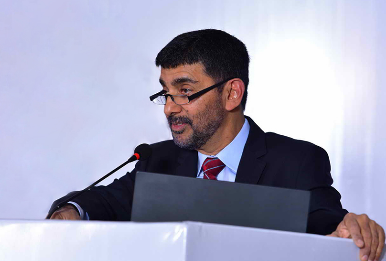 Pradeep Kar during a conference in Bangalore